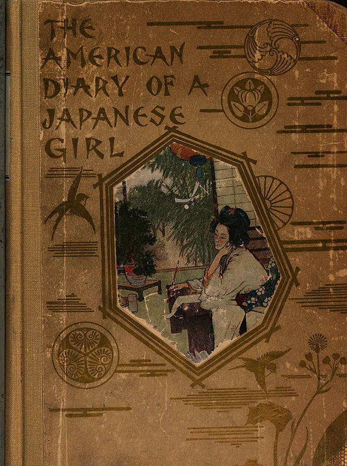 Cover of The American Diary of a Japanese Girl by Miss Morning Glory {pseudonym of Yone Noguchi} (New York: Stokes, 1902).